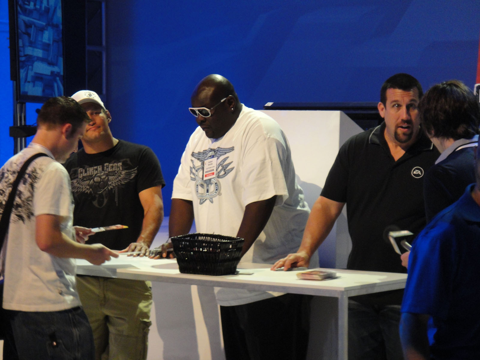 Dan Henderson, Big Black and John McCarthy.